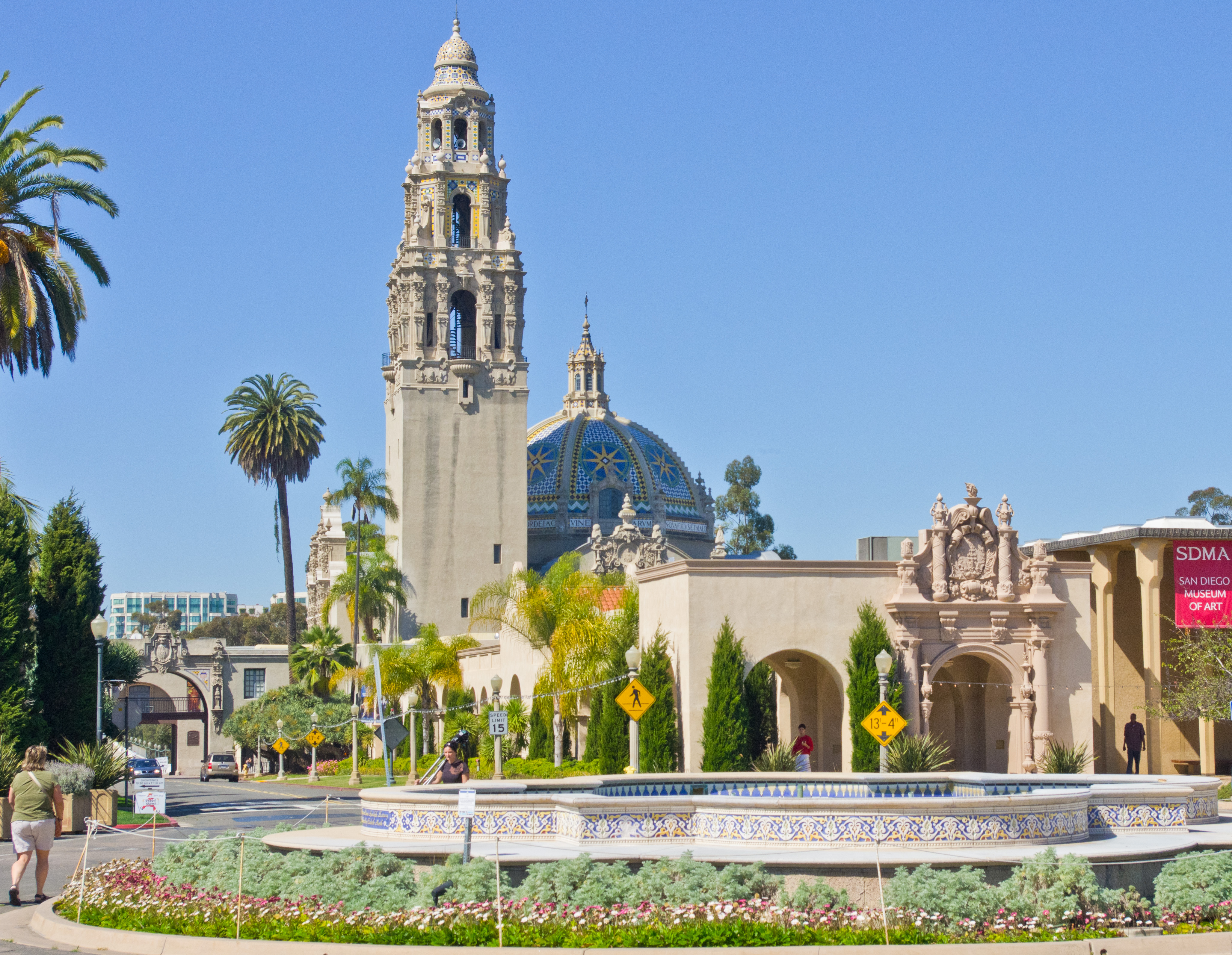 Balboa Park, San Diego, California